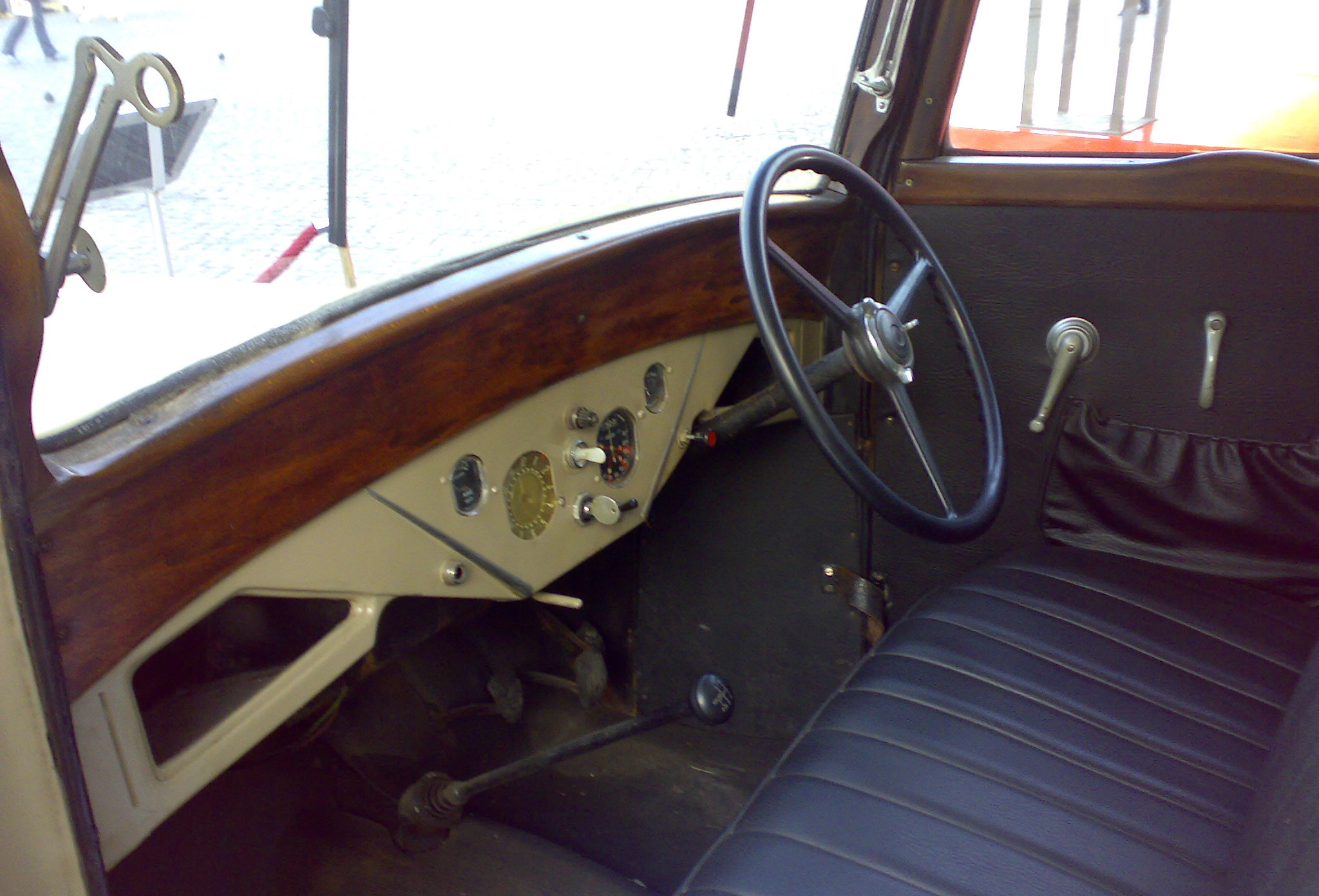 Bianchi S9 (1938) Ambulance (CROCE ROSSA ITALIANA, CORPO MILITARE) by "Carrozzeria Garavini".